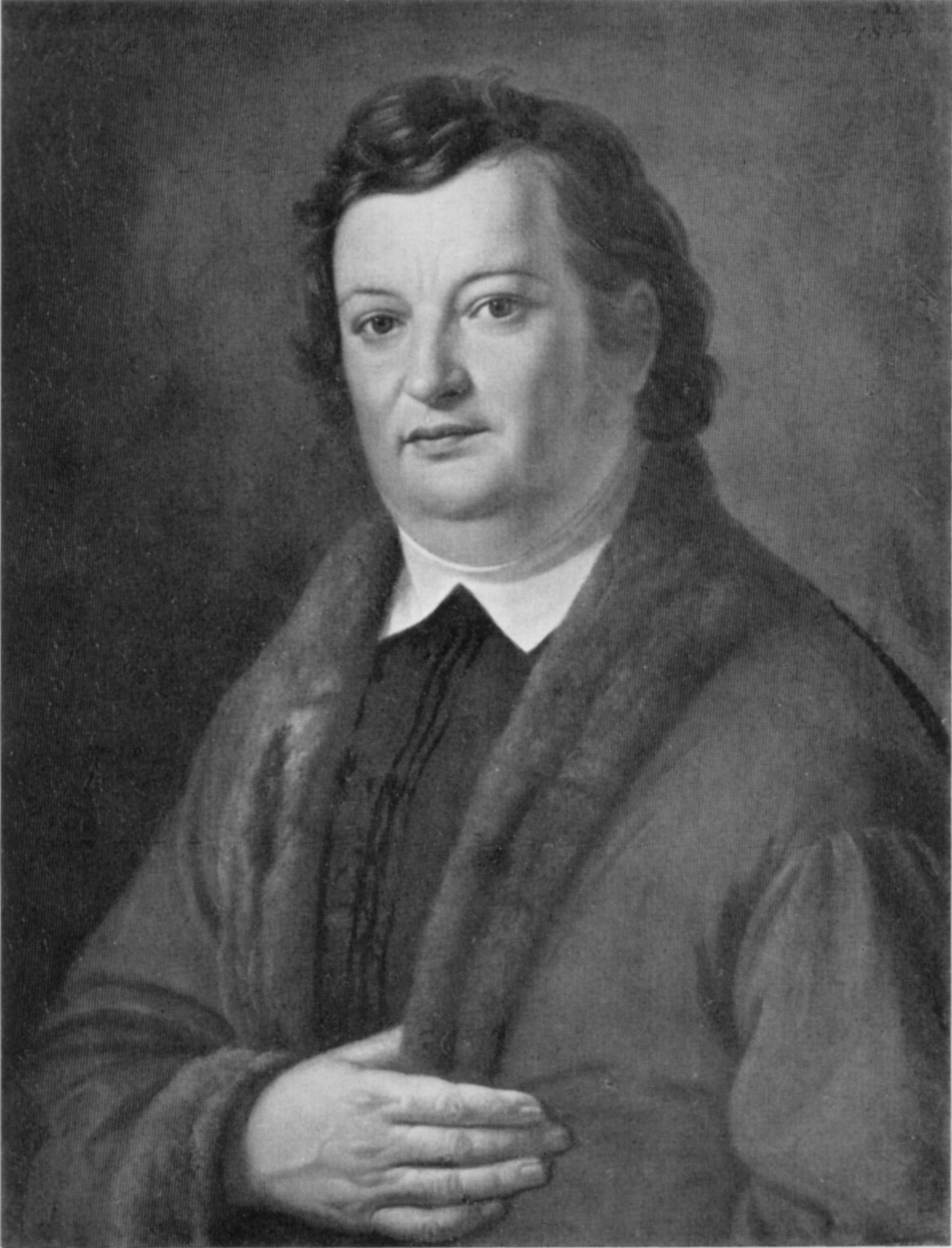 Justinus Kerner. Oil painting in the possession of the Schiller-Nationalmuseum in Marbach (on loan from the Staatsgalerie Stuttgart)